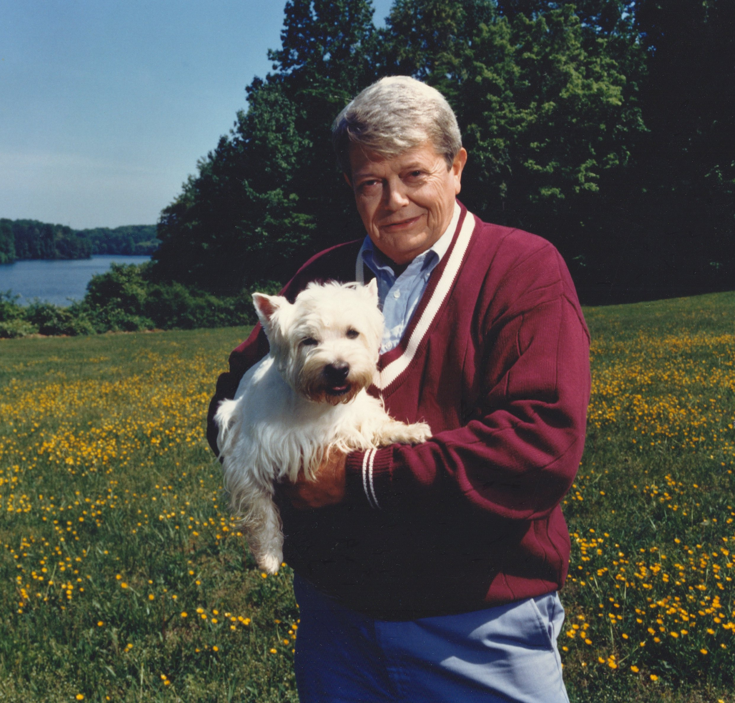 Photo of Howard Ensign Simmons, Jr with "Muffie" from the Spring of 1993. Location: Front yard of the Simmons Residence in Wilmington Delaware with the Hoopes Reservoir visible in the background.